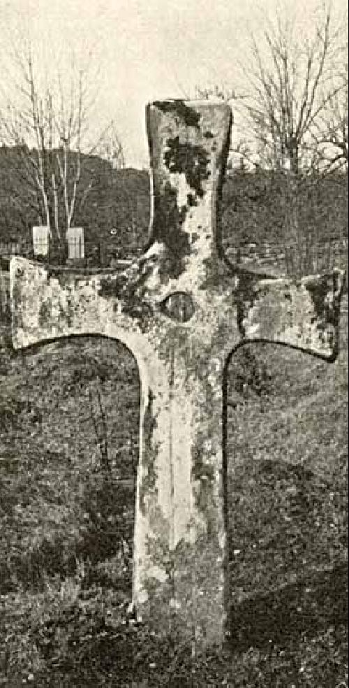 The Olaf cross at Svanøy is about two metres high and about 1.25 metres from tip to tip of the cross arms. The four "armpits" are nicely formed as open arches. The cross is one of four found in Norway with runes, it has been dated to be from the 11th century.